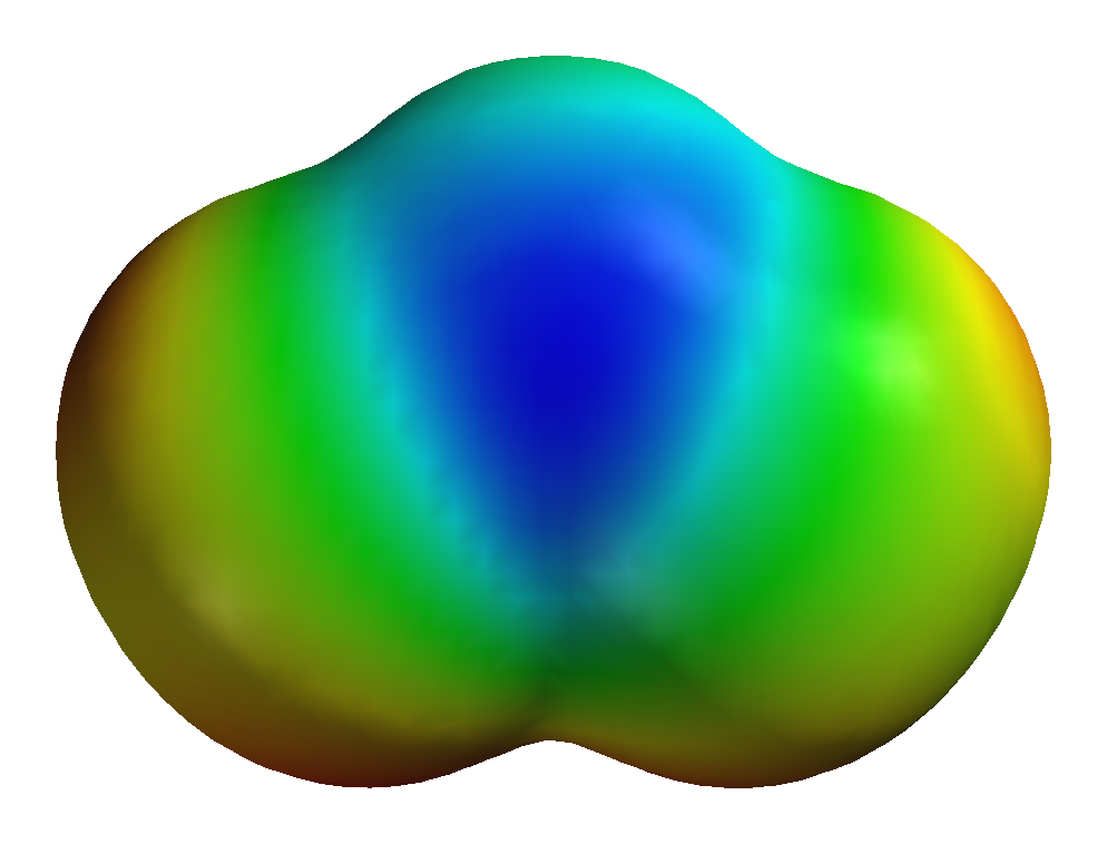 Ozone molecular electrical potential surface 3D-vdW